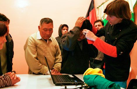 Eyeborgs being tested by blind communities in Ecuador.